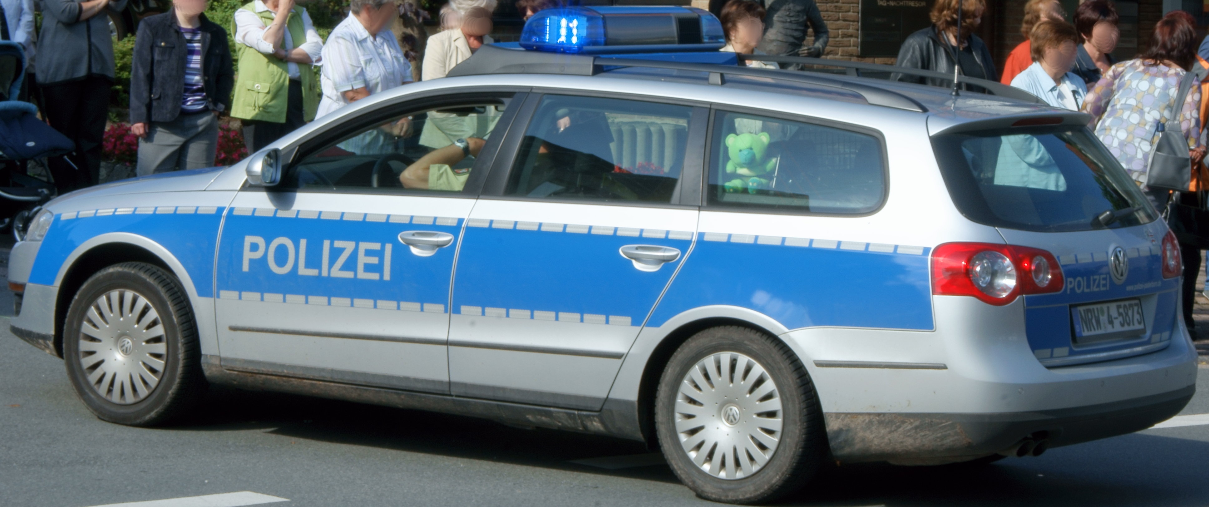 VW Passat Variant (B6, Typ 3C, since 2005), Polizei NRW (Germany), seen in Altenbeken, Germany. Numberplate: NRW = Nordrhein-Westfalen (federal country), 4 = ministry of the interior, 5873 = individual car id number. The police cars in NRW have got the new Pintsch-Bamag TOPas LED bluelight since the 5000 car id number.